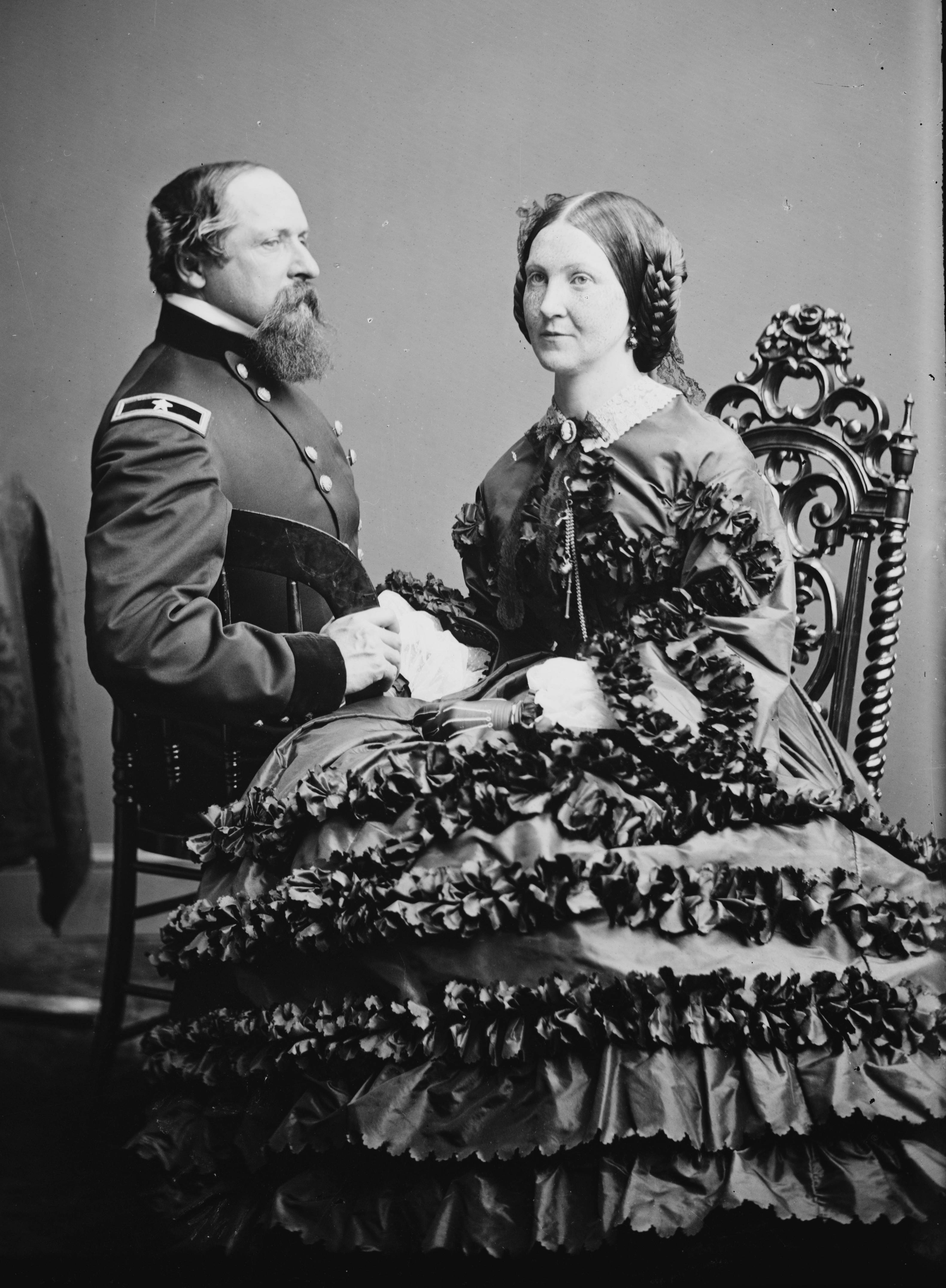 James B. Ricketts and his wife, Fannie. Library of Congress description: "Gen. and Mrs. J. B. Ricketts"